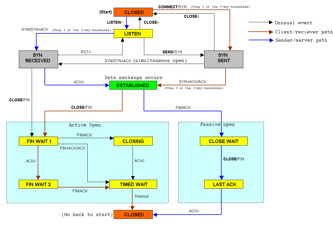 State diagram of Transmission Control Protocol (TCP); the image file uses a small hand-crafted color palette